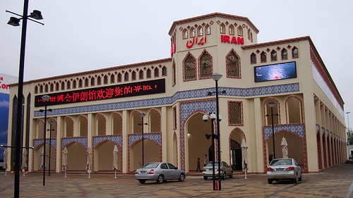 the Iran pavilion of Shanghai expo2010.